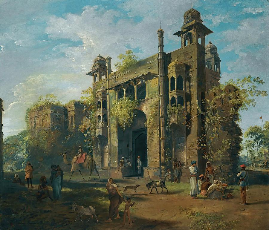 "The South Gate of the Lalbagh Fort" oil on canvas, by the German painter Johan Zoffany. 26 in x 30 in. Private collection. Image courtesy of Ben Elwes Fine Art.